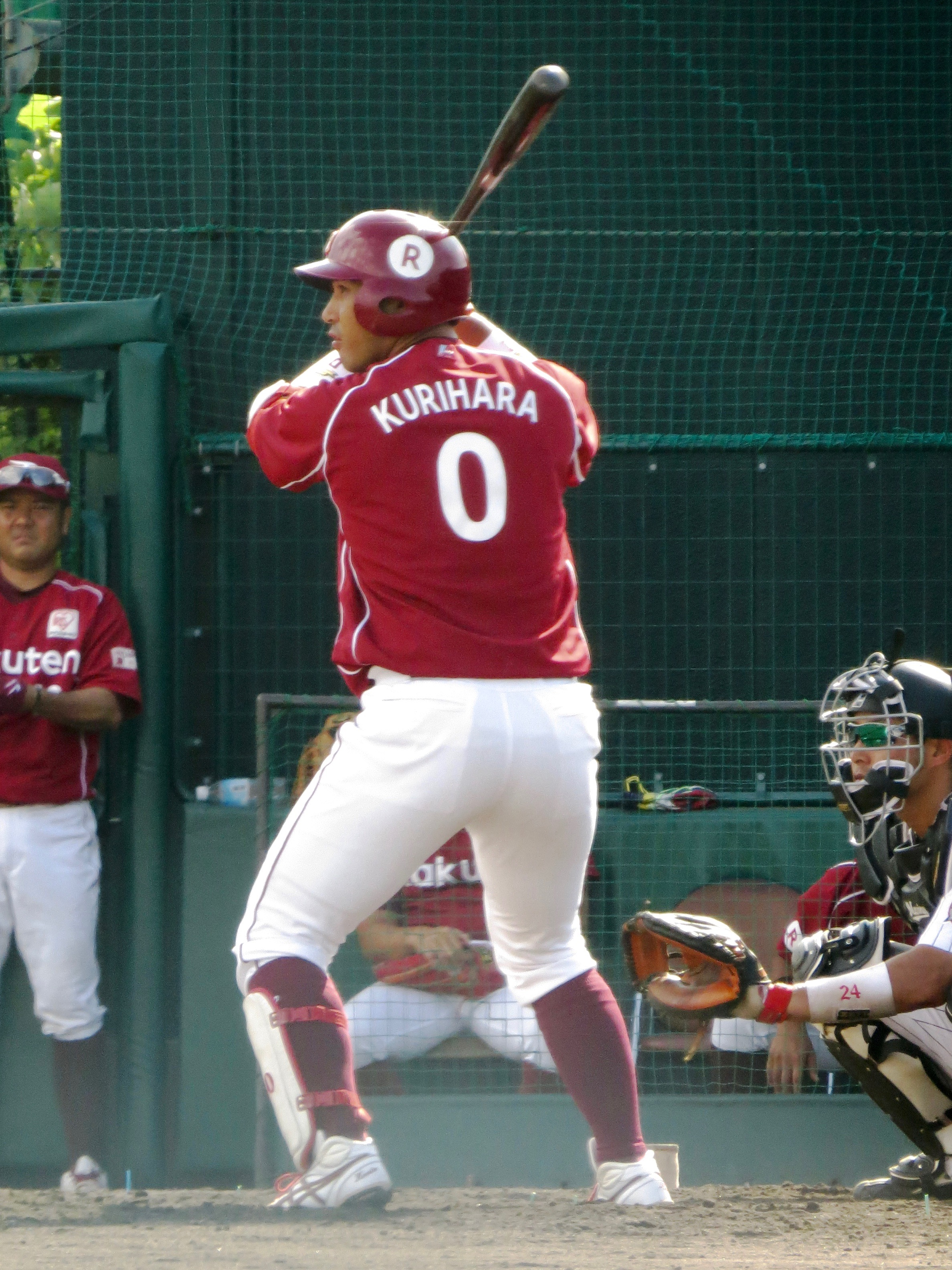 Kenta Kurihara, infielder of the Tohoku Rakuten Golden Eagles, at Lotte Urawa Baseball Ground